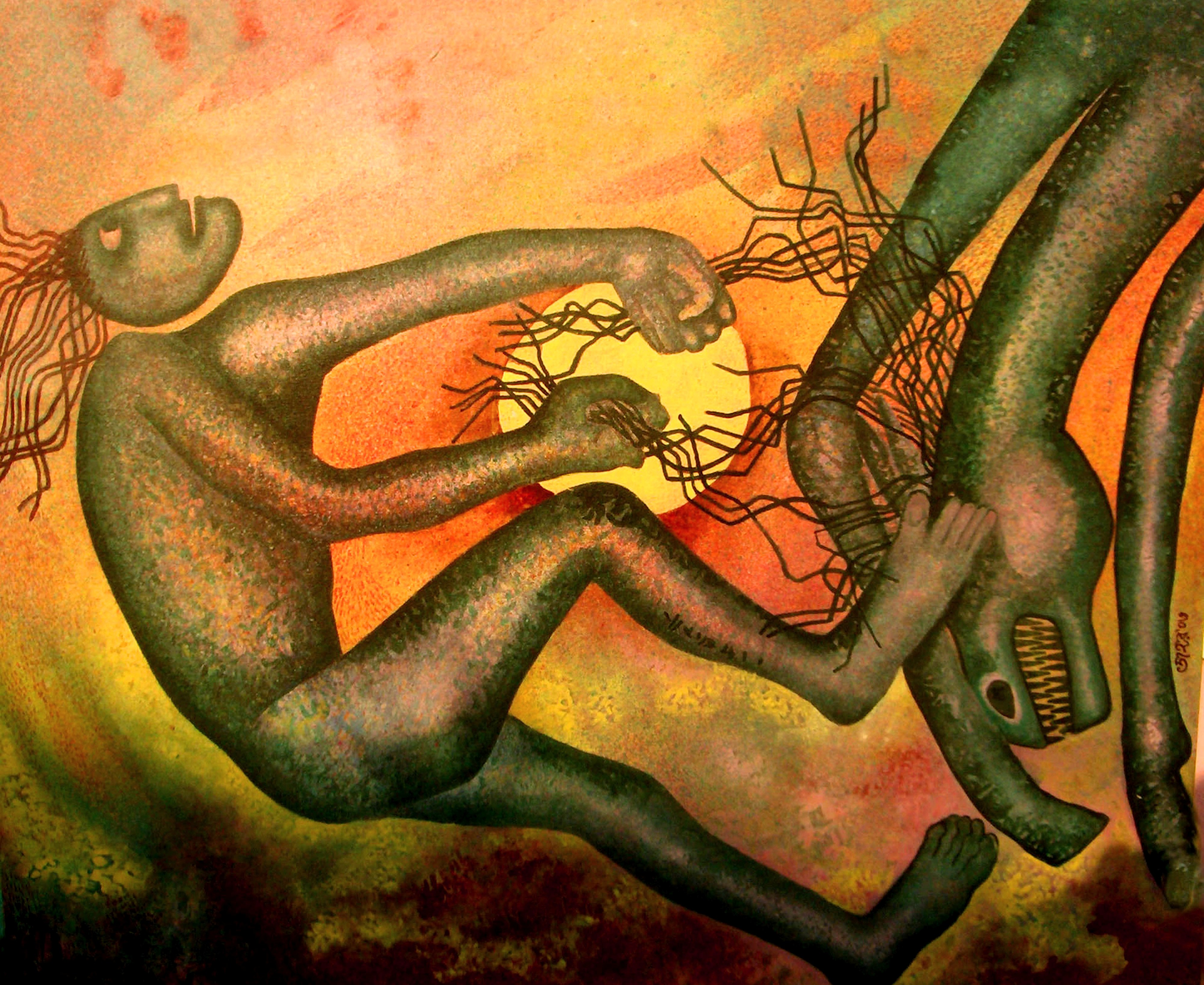 The famous series 'Confrontation' by Jahar Dasgupta. This work is currently under Sutlej Art Gallery (Canada, ontario) Museum collection